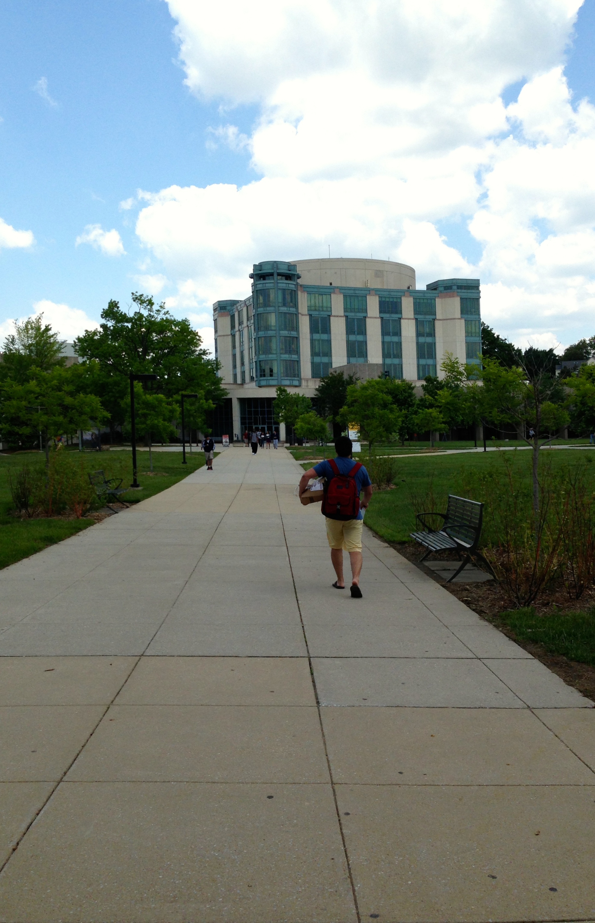 Looking at AOK Library from the University Commons on the University of Maryland, Baltimore County campus